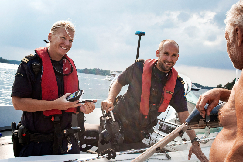 alkohol test